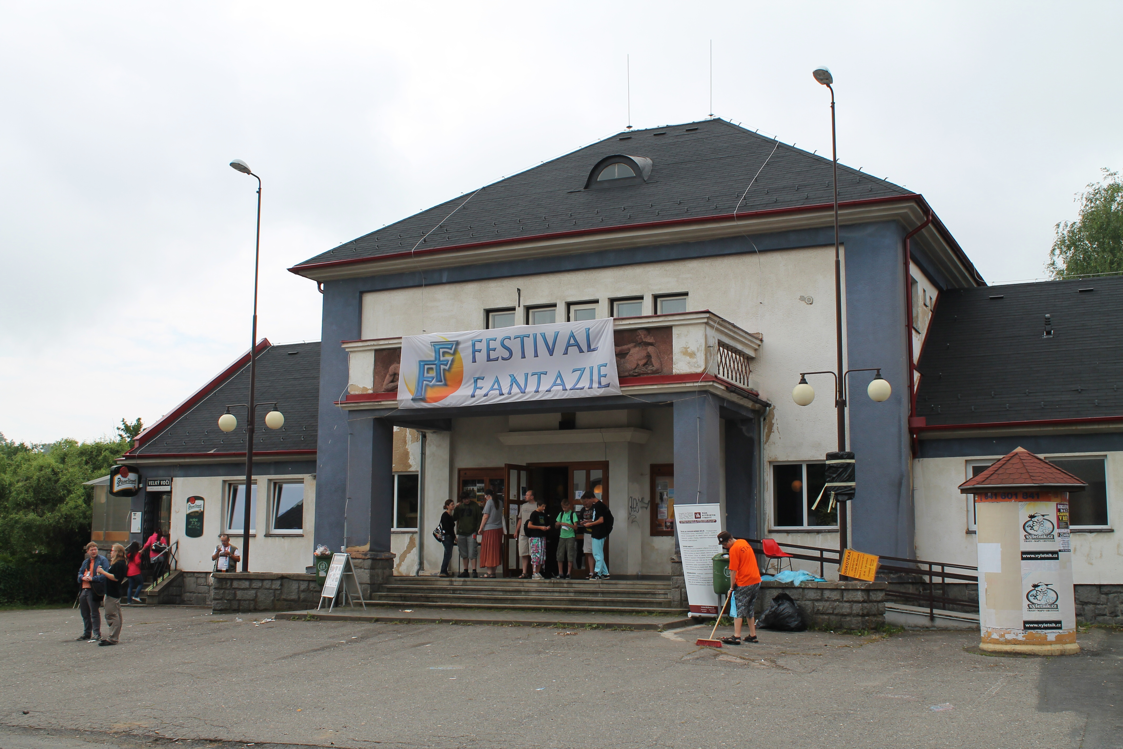 Družba cinema during Festival fantazie, Chotěboř, Havlíčkův Brod Disctrict, Czech Republic